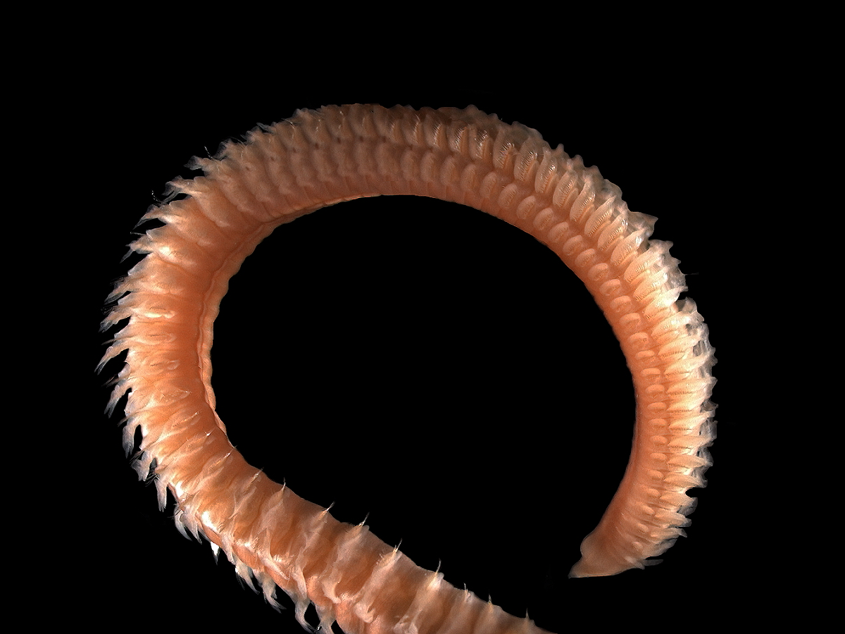 from the Belgian continental shelf.